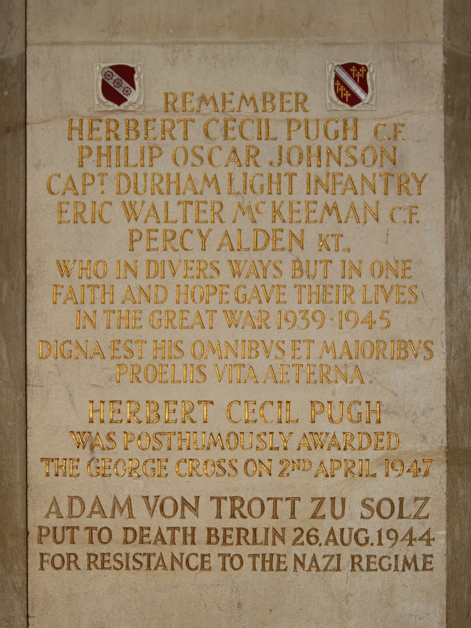 Inscription on a column in the chapel of Mansfield College, Oxford, in memory of Sqn Ldr Rev Cecil Pugh, GC, Capt Philip Johnson, Rev Eric McKeeman, Sir Percy Alden & Adam von Trott zu Solz